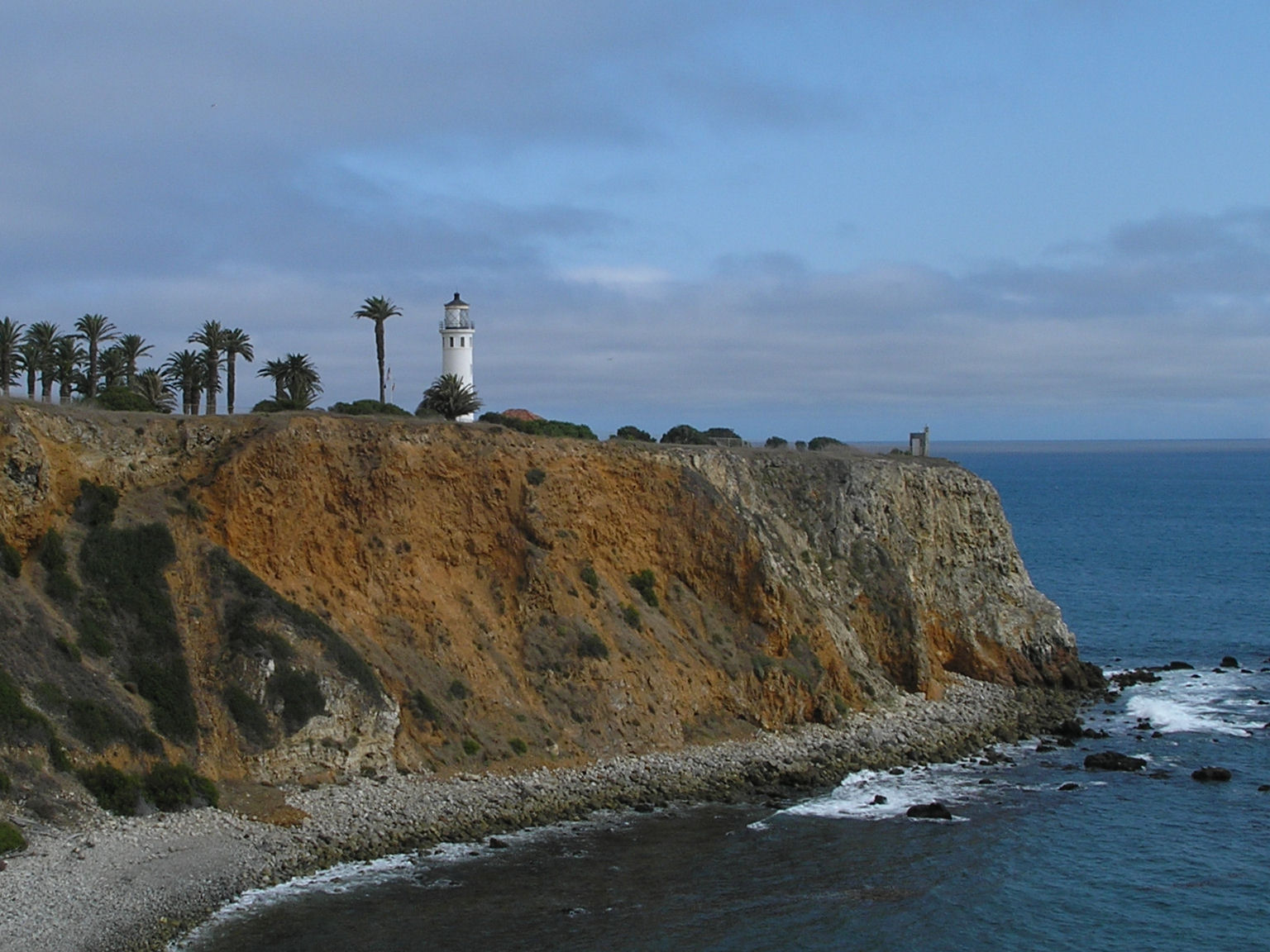 Point Vicente Light on the Palos Verdes Peninsula, California